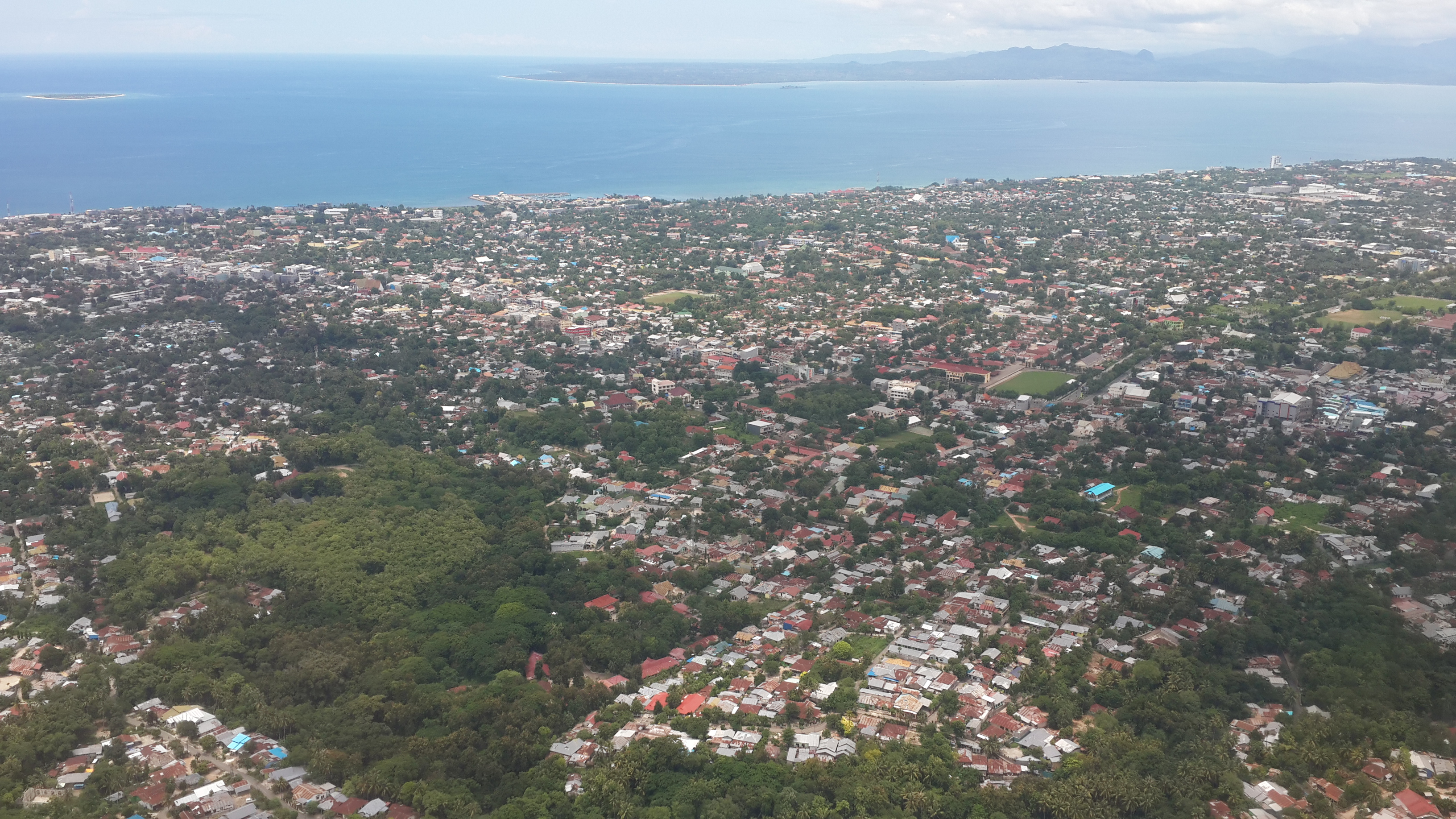 Kupang, East Nusa Tenggara, Indonesia